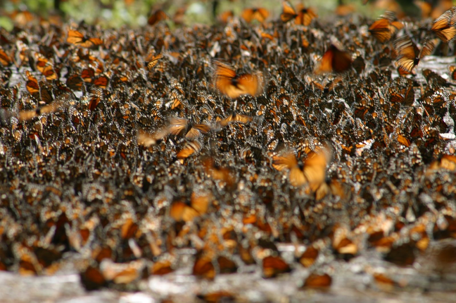 Copyright gailfisher Published under